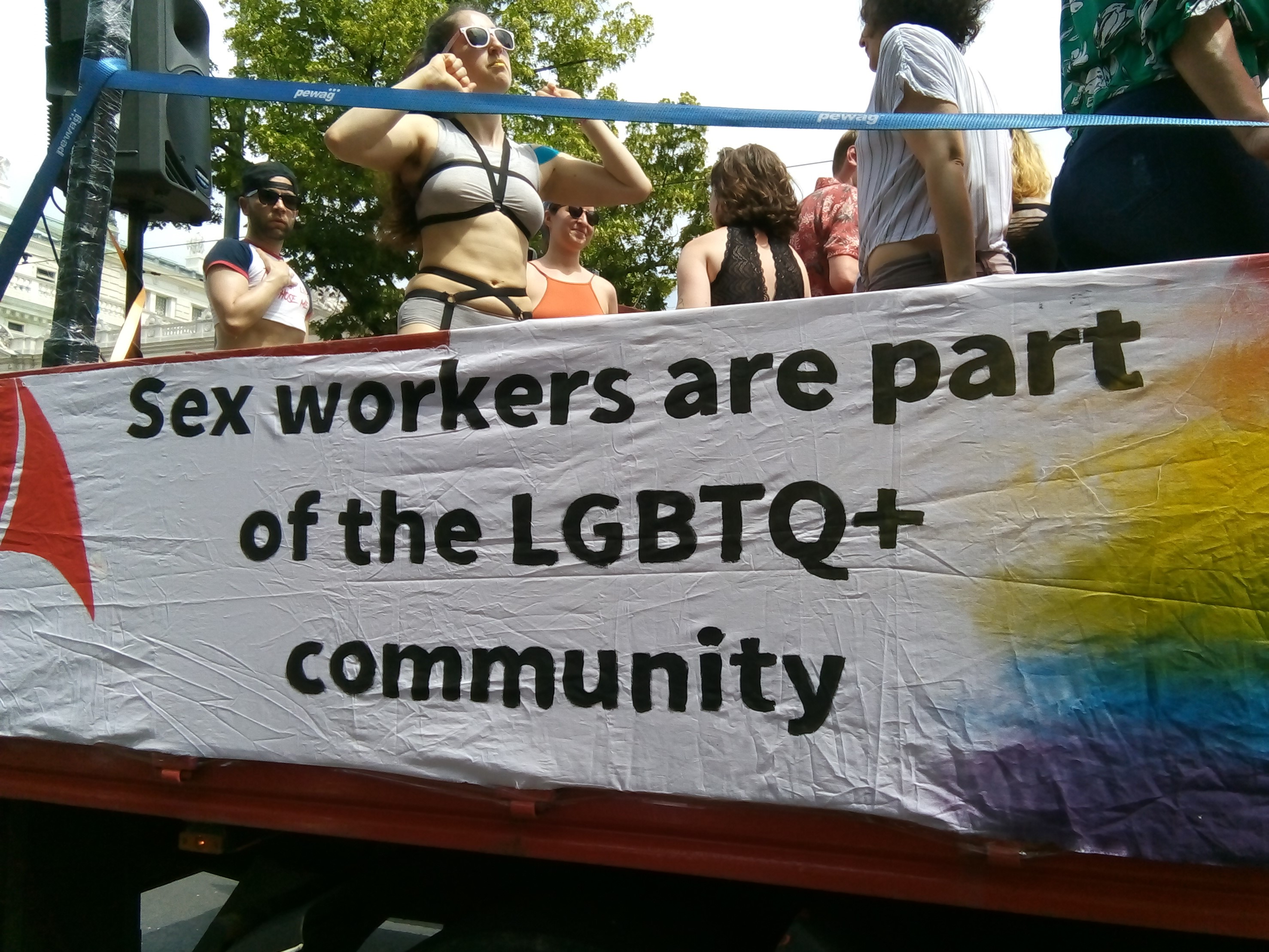 “Sex workers are part of the LGBTQ+ community” - Europride 2019.Location: Austria, Vienna. Event type: Europride Vienna 2019. Date or year: 15.06.2019.